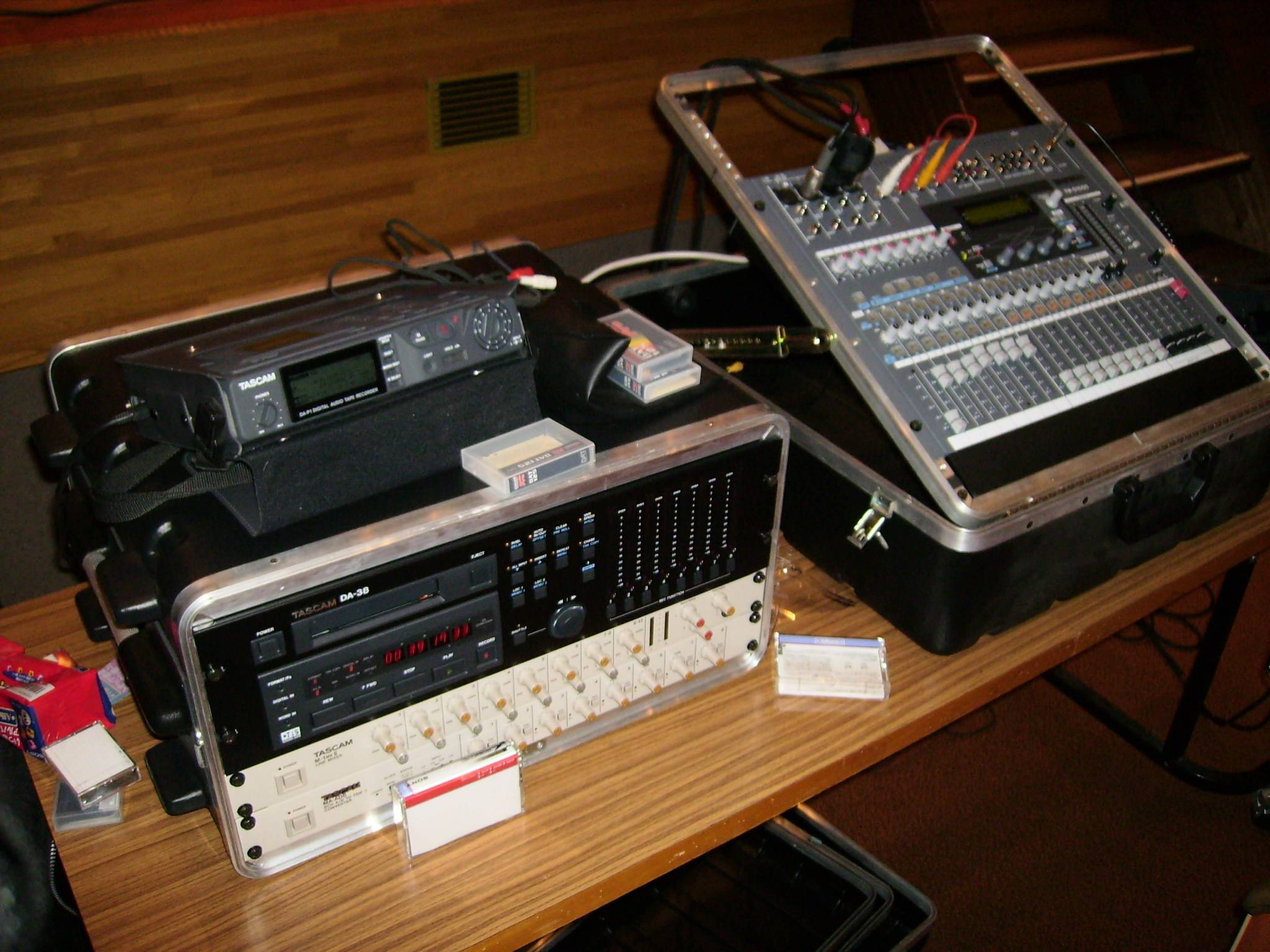 Old-style equipments for a small scale recording session, including a DTRS multitrack recorder (TEAC/TASCAM DA-38B), a DAT recorder (TEAC/TASCAM DA-P1), and a digital mixer (TEAC/TASCAM TM-D1000). TASCAM DA-P1 Portable DAT Recorder TASCAM DA-38B DTRS Multitrack Recorders TASCAM M-1 mkII 10In/2Out Stereo Line Mixer TASCAM MA-AD8 8ch Mic Preamp + Analog/TDIF Converter TASCAM TM-D1000 Digital Mixer